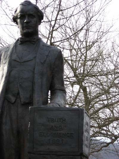 Digital picture of statue of William Jennings Bryan in Dayton, Tennessee